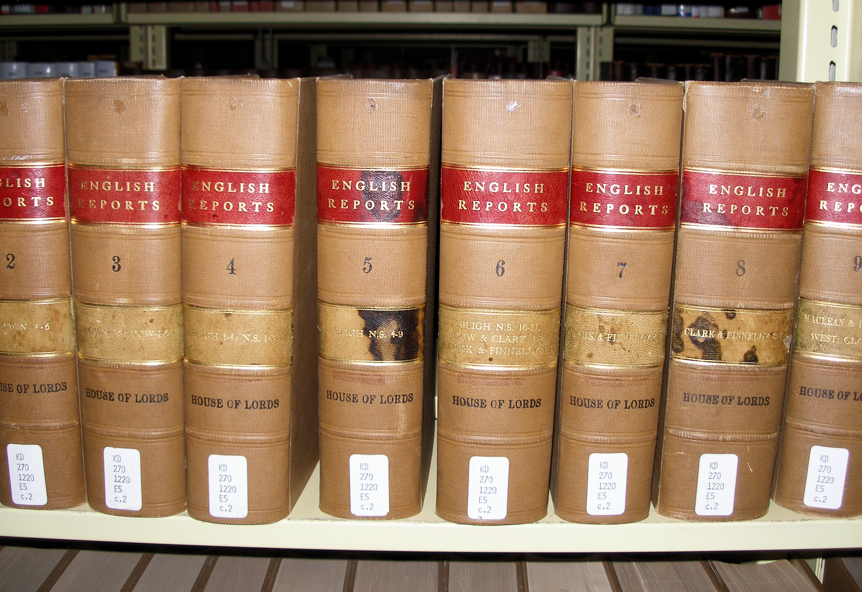 Several volumes of the English Reports on a shelf at the law library of UC Berkeley School of Law.